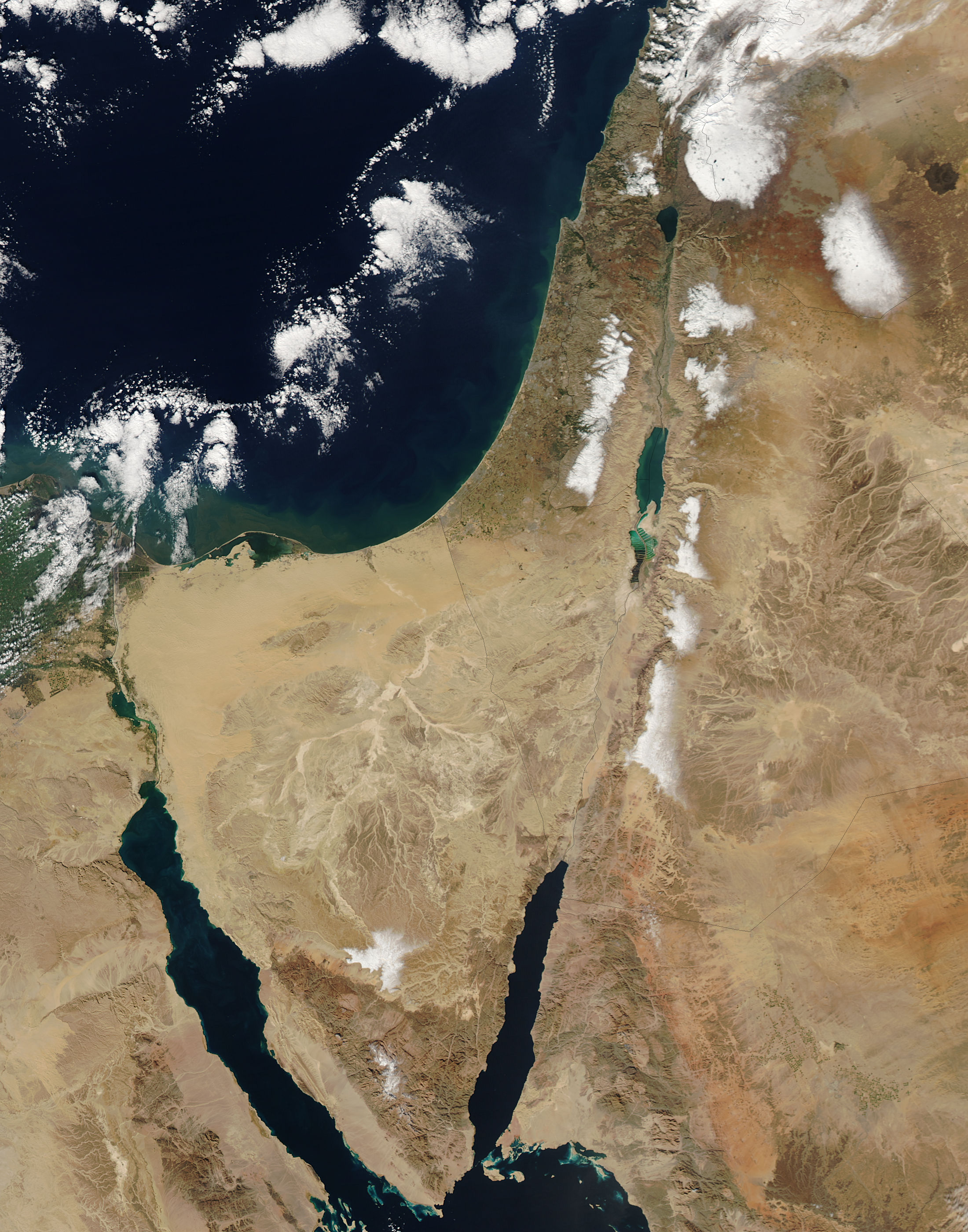 This image from the Aqua satellite's MODIS instrument taken at 11:10 UTC on December 16, 2013 shows areas of snow in Syria, Jordan, Israel and the Palestinian Territory. Snow storms in the Middle East are not frequent but not uncommon either. However, this one was unusually early in the winter and more intense than normal. The storm paralyzed Jerusalem with 30 to 50 centimeters (12 to 20 inches) of snow, knocking out power for roughly 15,000 households. The snow closed mountain roads leading into the city, effectively cutting Jerusalem off. Amman, Jordan, received about 45 cm (18 inches) of snow, and Lebanon and Syria also were unusually cold and snowy. Lower elevations near the coast received torrential rain during the storm, resulting in flooding. Some 40,000 people were forced to evacuate flooded areas in Gaza, according to the Associated Press. The floods are not visible at this scale, but tan and green plumes of sediment are visible along the Mediterranean Sea coast. Such plumes can be caused by floods and run off, though stormy, turbid waters may also bring sediment to the surface.